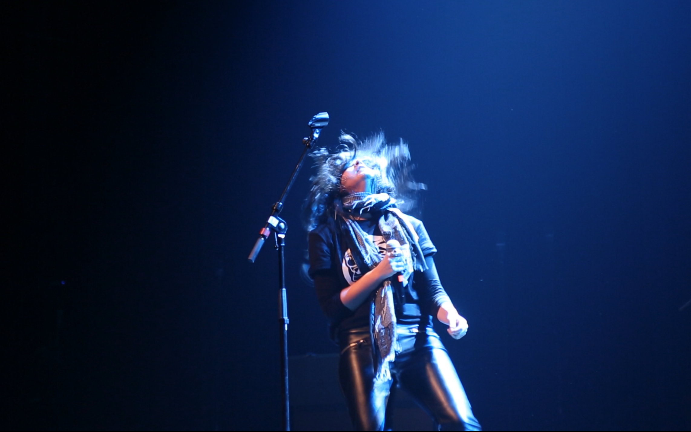 Salome Live at Music Freedom Day Festival 2016, Norway